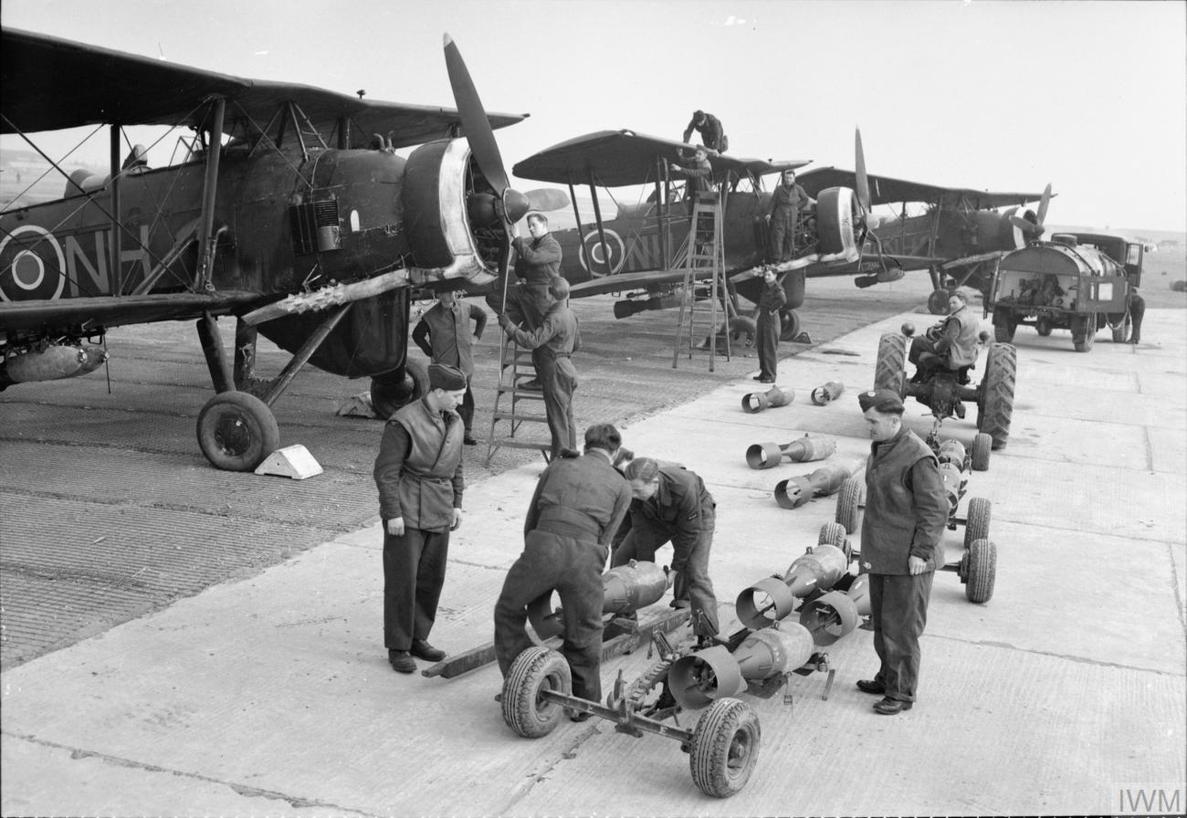 Royal Air Force Coastal Command, 1939-1945. Armourers unload 250-lb GP bombs in front of a line of Fairey Swordfish Mark IIIs of No. 119 Squadron RAF, undergoing maintenance at B83/Knokke le Zoute, Belgium. The Squadron flew anti-shipping patrols, principally against German midget-submarines, in the North Sea and off the Durch coast